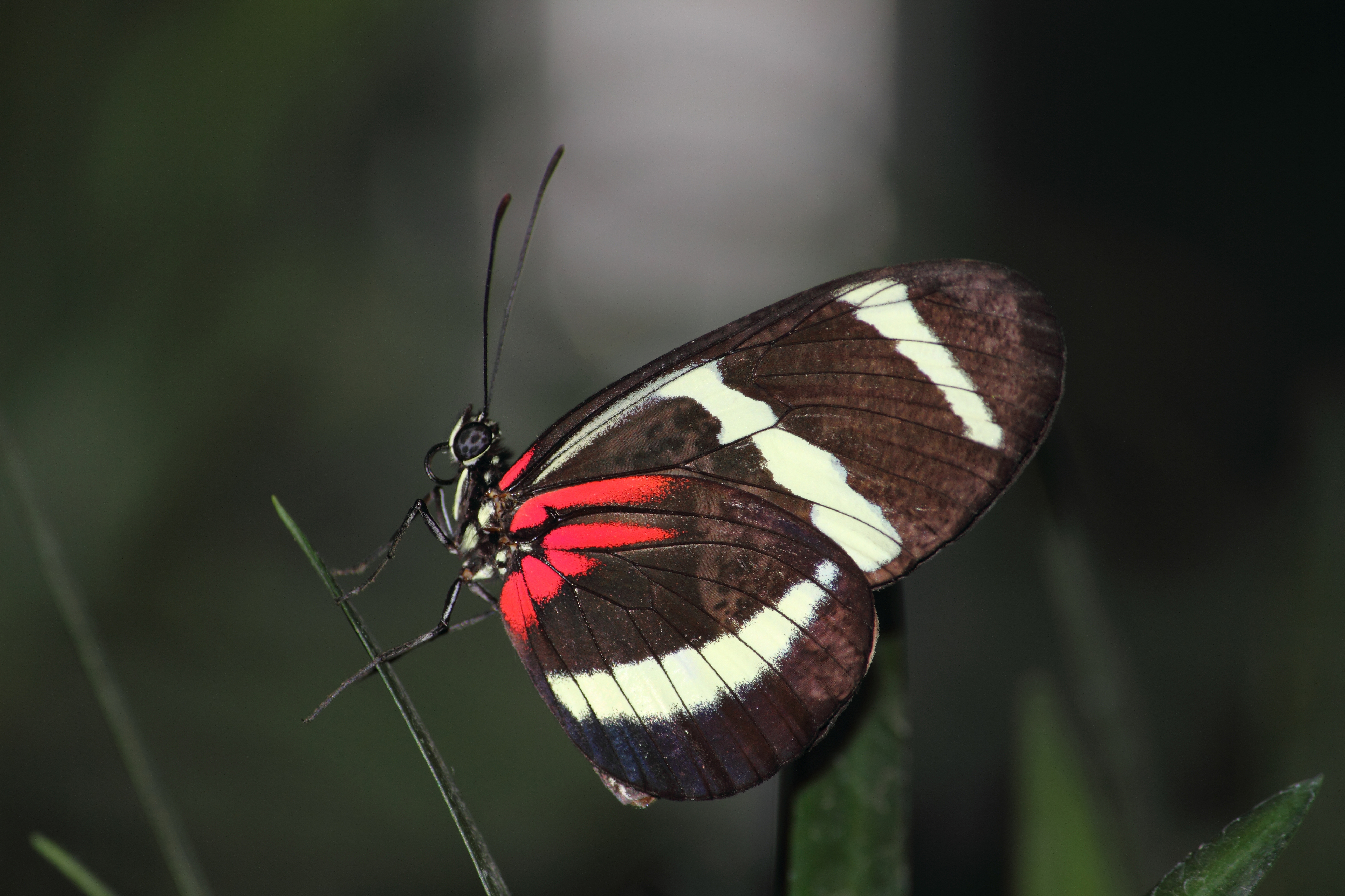 Heliconius hewitsoni side view - taken at Krohn Conservatory butterfly show.